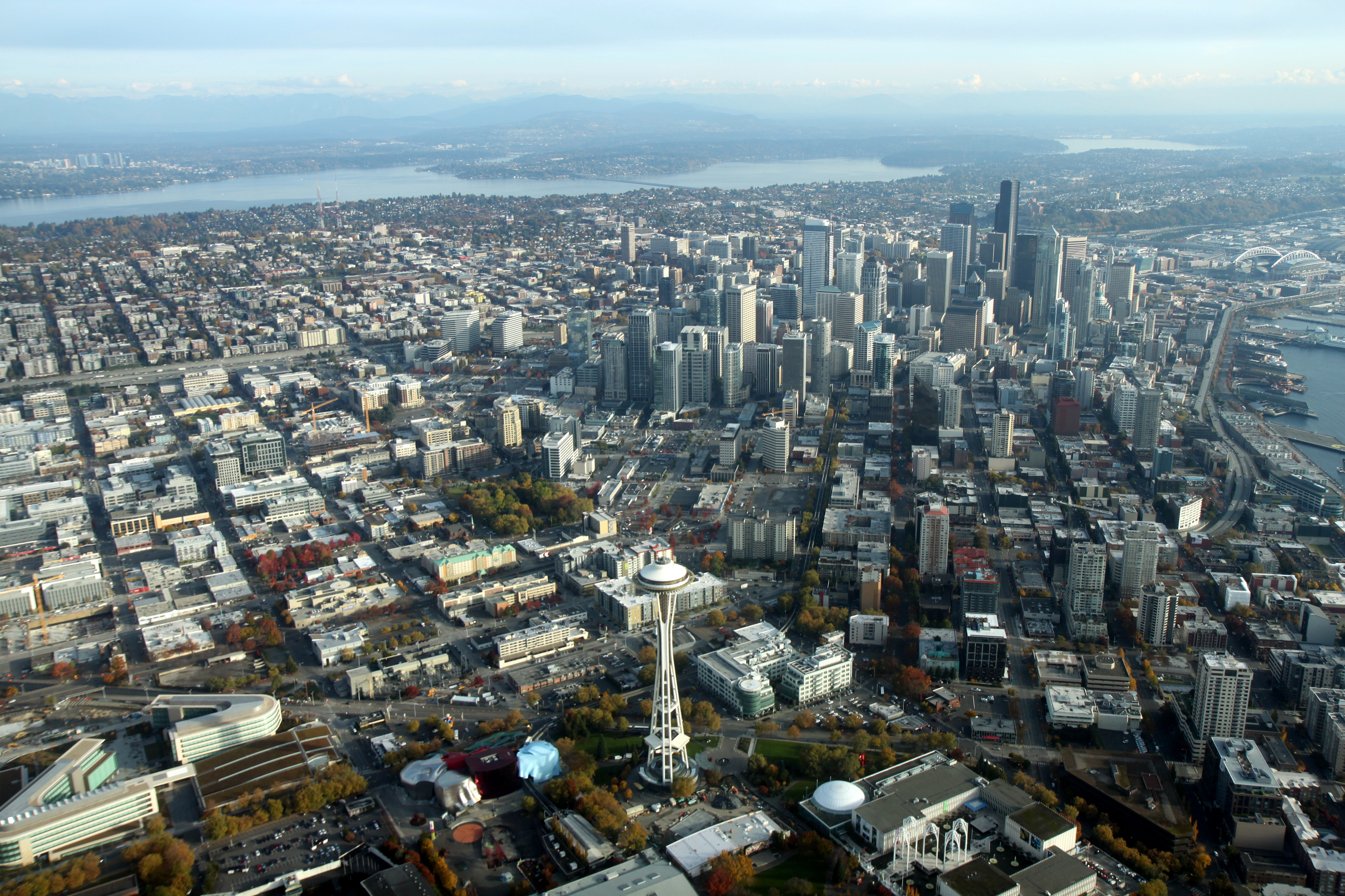 Downtown Seattle looking south-east. Foreground: Space needle. Background: Lake Washington, Mercer Island.